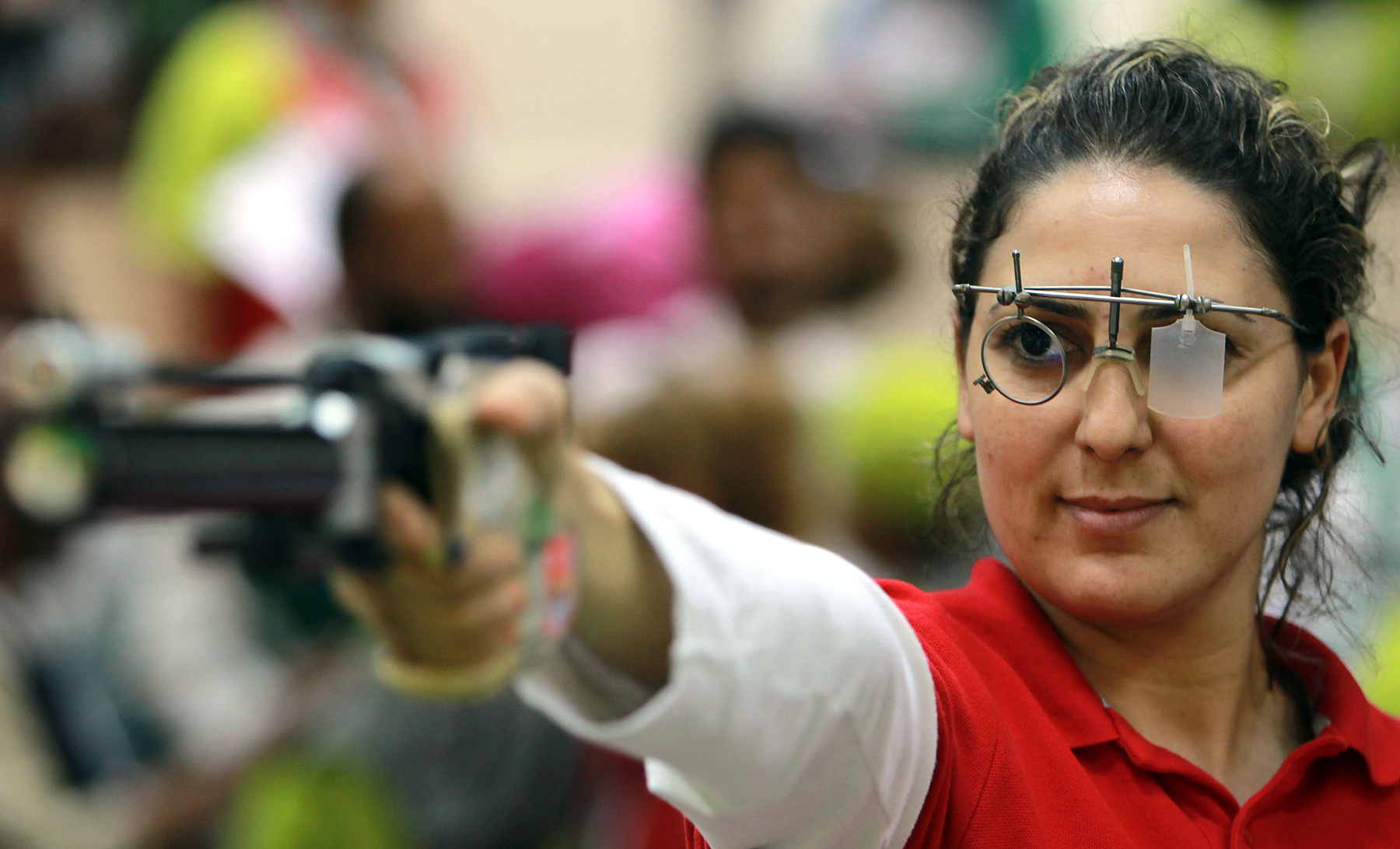 Tunisia's Olfa Charni competing in the final of the women's 10M Air Pistol event of the Doha Arab Games at the Lusail Shooting Range. The competitor wears shooting glasses as a visual aid. Though the glasses are extremely customizable, most pairs contain three basic elements: a lens, a mechanical iris (not present in this image), and blinders. These components work together to help shooters focus on both the faraway target and their gun's sights at the same time.